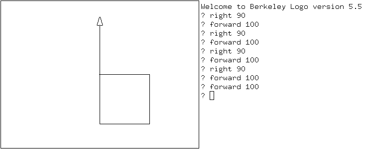 UCBLogo (by Daniel Van Blerkom and others) running on FreeBSD 6.1 with ratpoison as window manager. The left side is the drawing window, the right side is the command interpreter window. In ratpoison windows default to have no border at all.